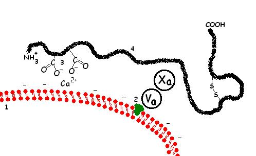 prothrombinase complex